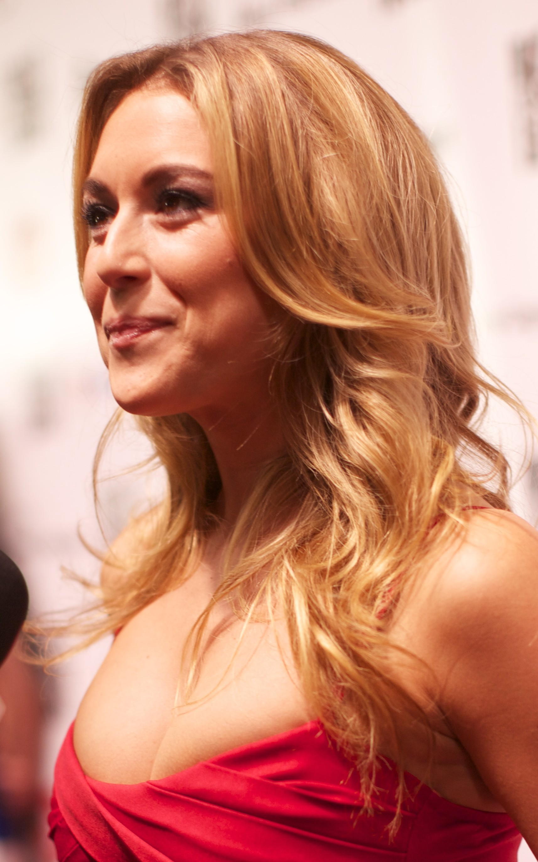 Vega at the premiere of "Machete Kills" at Fantastic Fest 2013